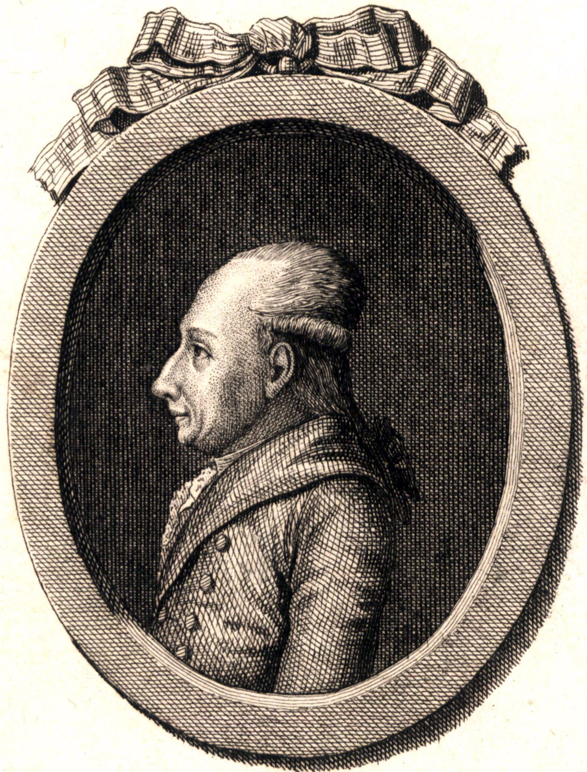 Johann August Heinrich Ulrich (1746 -1813) german Philosopher